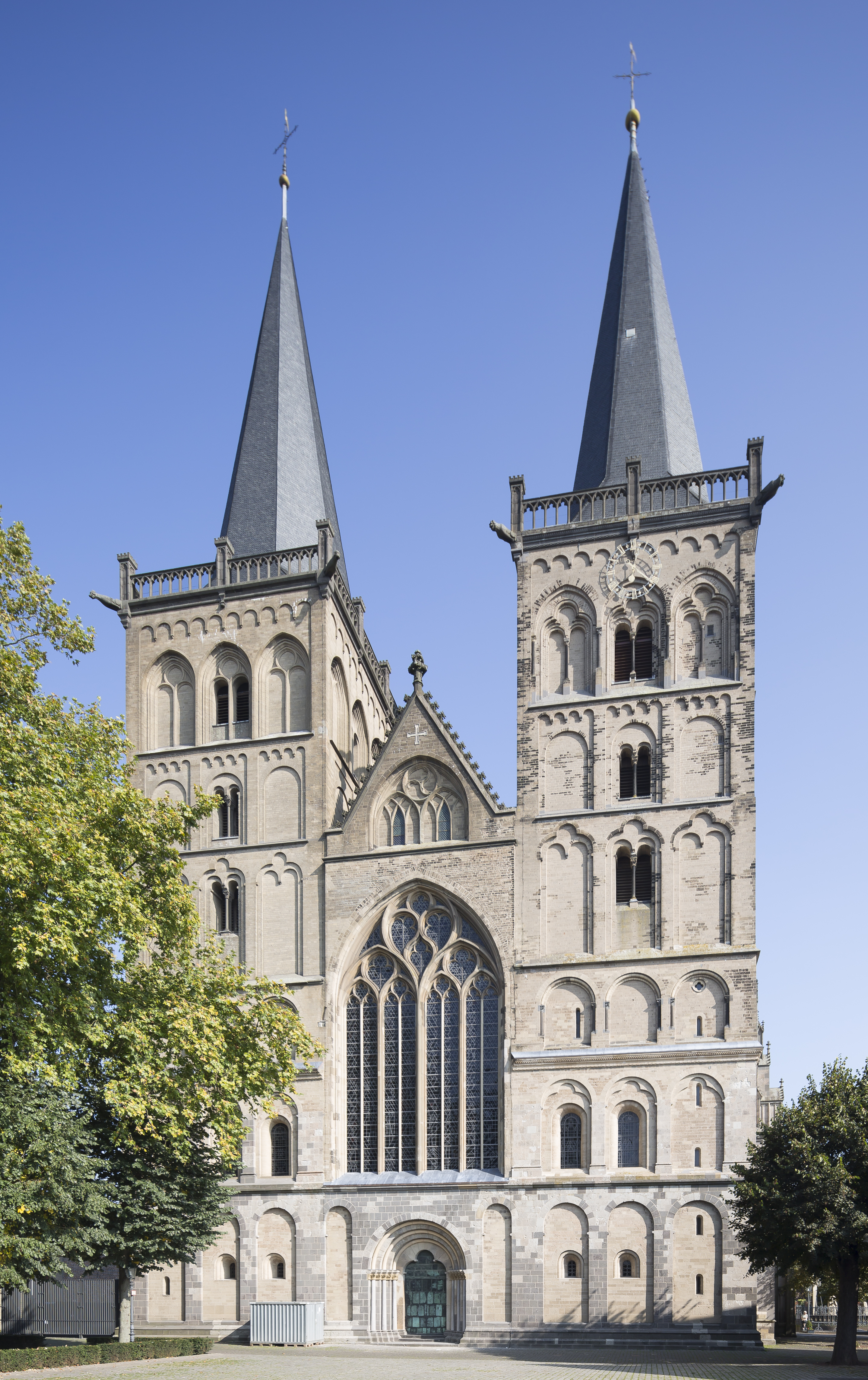 Xanten, Germany: Xanten Cathedral